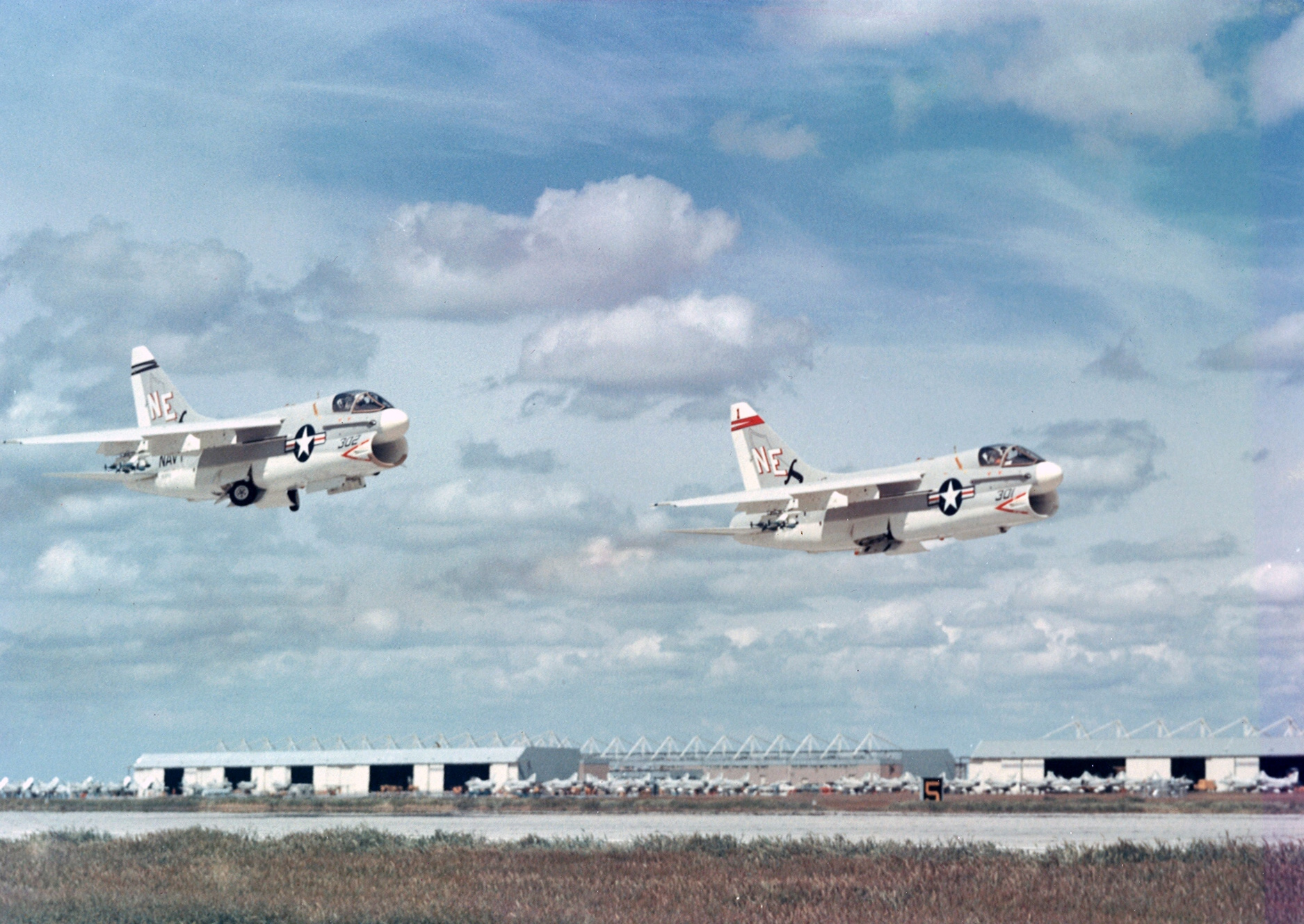 Two U.S. Navy LTV A-7A Corsair II aircraft (BuNo 153220, 153223) of Attack Squadron VA-147 Argonauts taking off from Naval Air Station Lemoore, California (USA), on 15 April 1967. VA-147 made the first deployment of the Corsair II assigned to Attack Carrier Air Wing 2 (CVW-2) aboard the aircraft carrier USS Ranger (CVA-61) from 4 November 1967 to 25 May 1968. The squadron flew its first combat mission over Vietnam on on 4 December 1967, losing only one plane during the deployment. The A-7A 153223 was later assigned to VA-153 and crashed into Gulf of Tonkin after launching from the USS Oriskany (CVA-34) on 8 September 1971. The pilot ejected and was rescued.